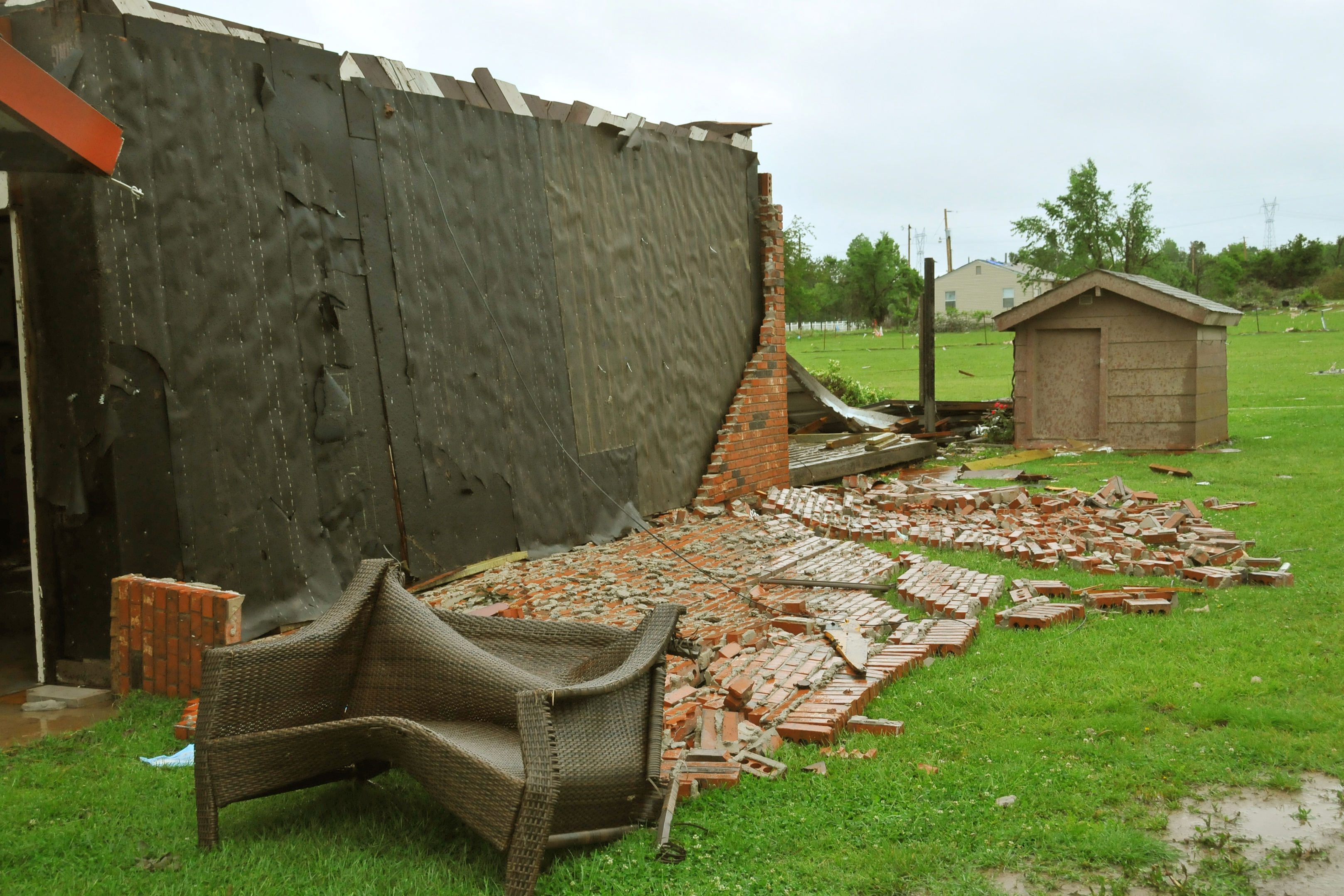 Oklahoma County, OK, May 14, 2010 -- Tornado-force winds stripped this brick veneer completely from the side of a home. There were a number of F3 and two F4 twisters spawned by storms that produced 22 confirmed tornadoes on May 10. FEMA Photo by Win Henderson